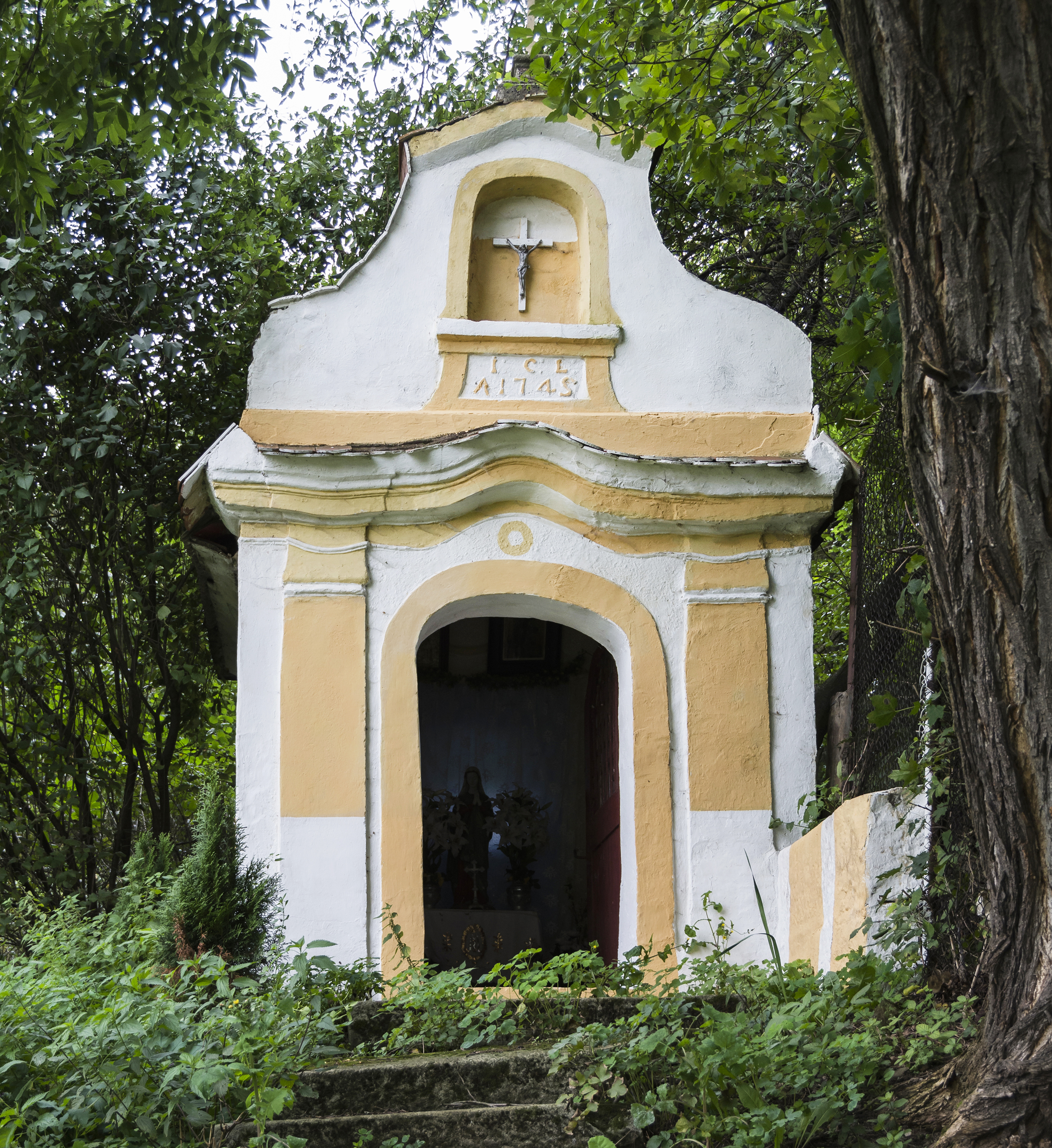 Chapel in Krosnowice